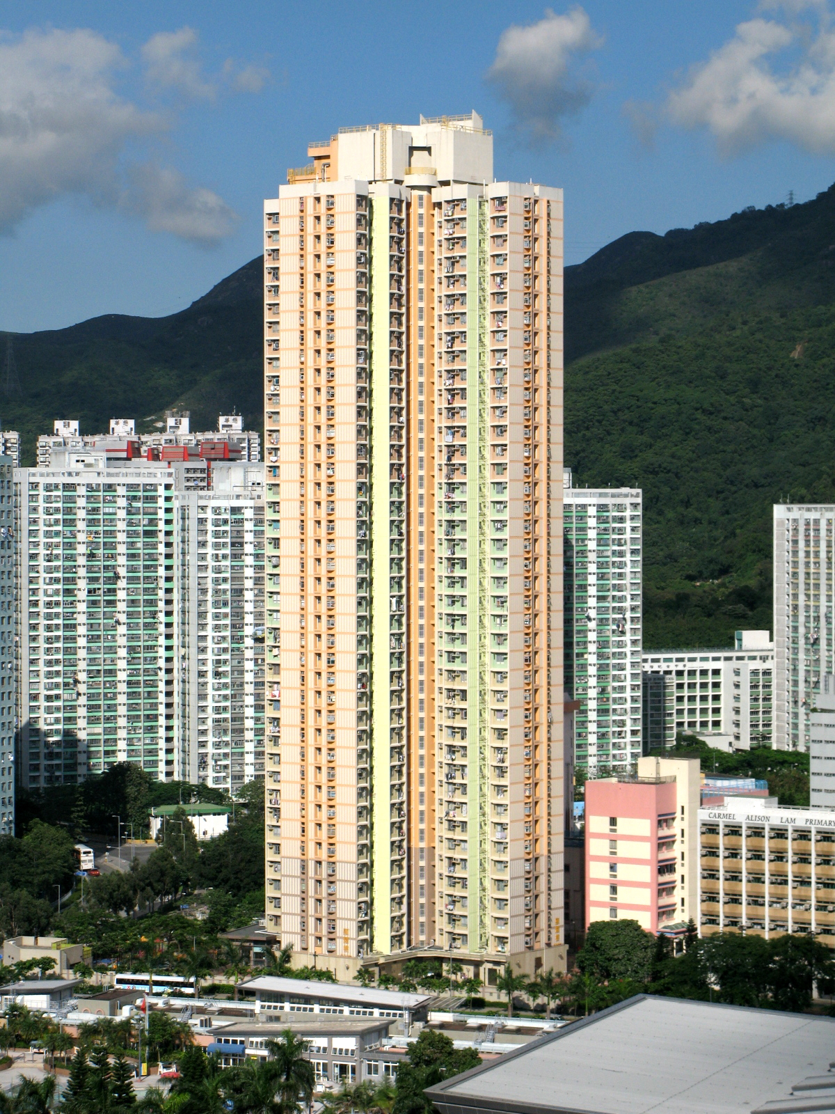 Hong Kong: Hin Yiu Estate (tower), with Lung Hang Estate in the background. 顯耀邨